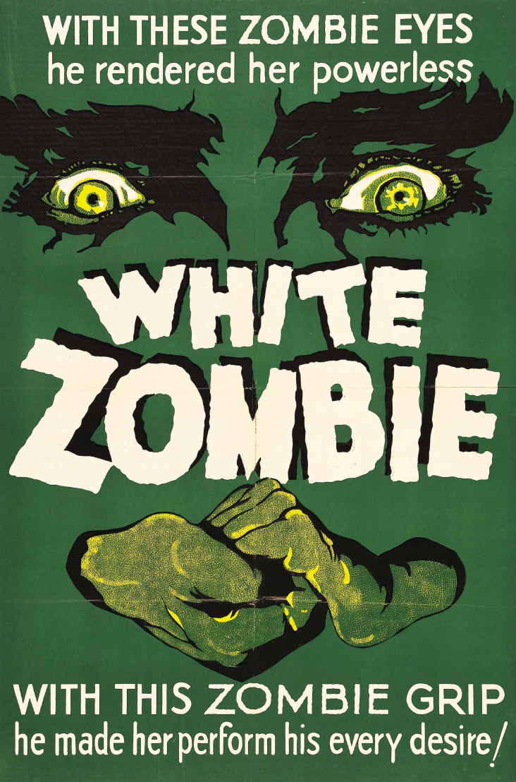 Poster of the horror movie White Zombie